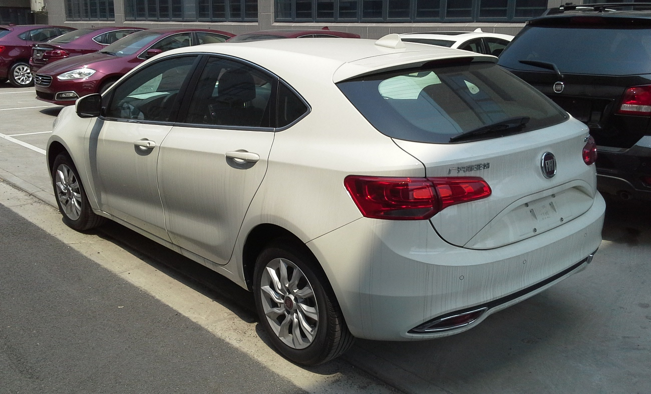 Fiat Ottimo photographed in Shanghai, China.